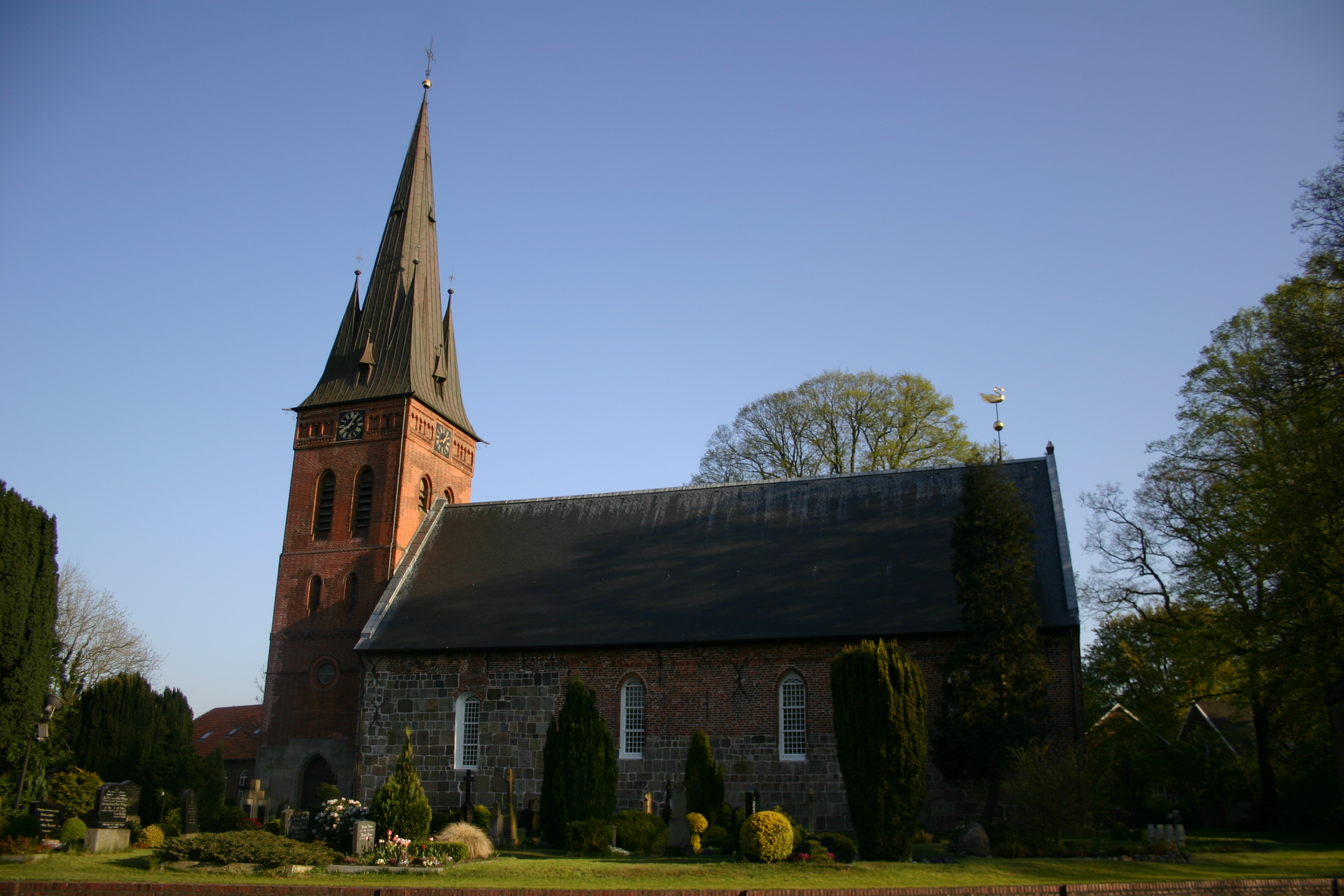 Historic church in Remels, district of Leer, East Frisia, Germany